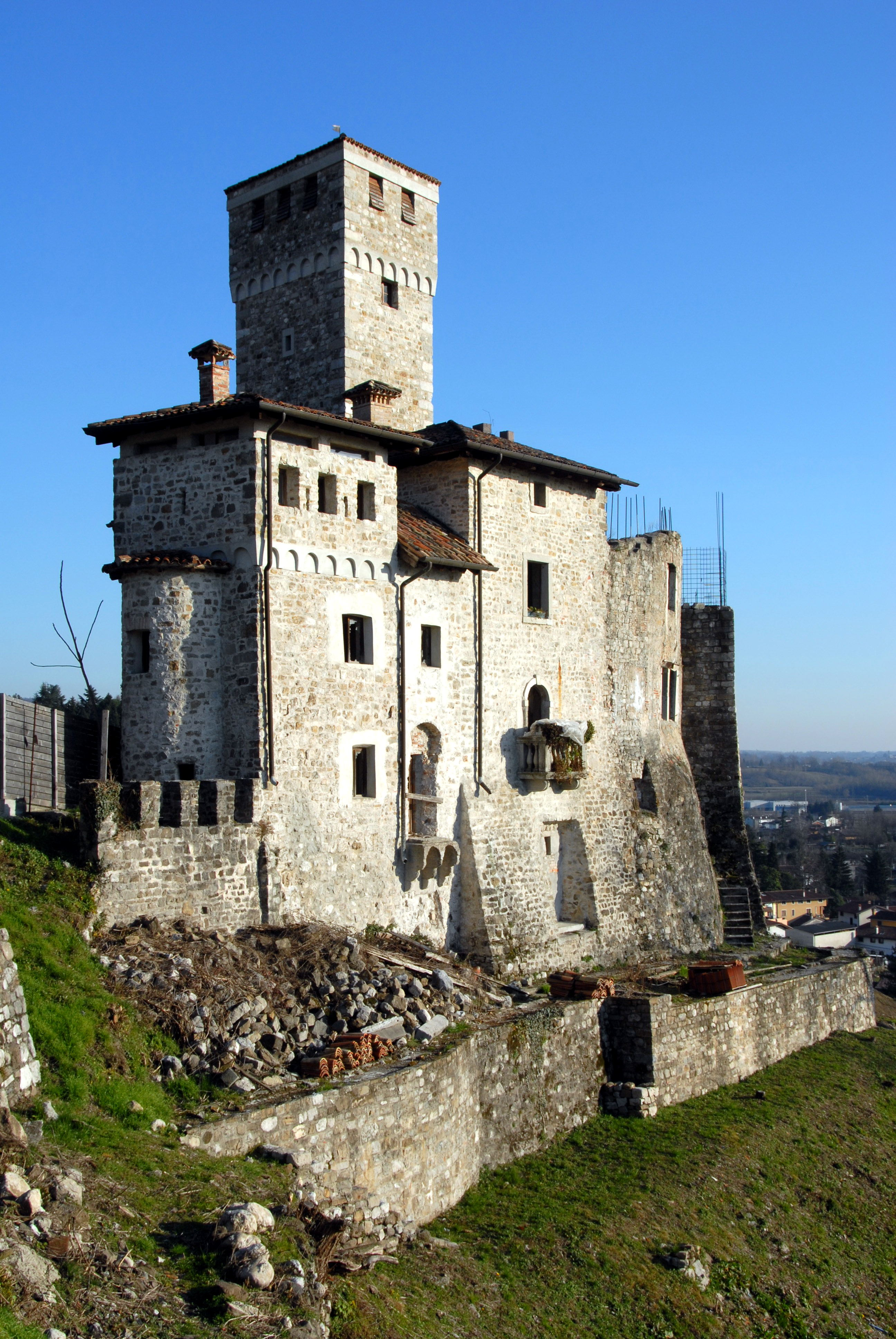 Castle Savorgnan, Via delle Chiese, municipality Artegna, province Udine, Friuli, Italy